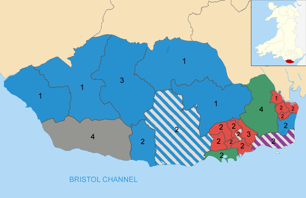 Results of the Vale of Glamorgan Council election, May 2012, indicating numbers of councillors per ward and their party affiliations. Colours: Conservative Labour Plaid Cymru Llantwit First Independent UKIP Striped wards have mixed representation.